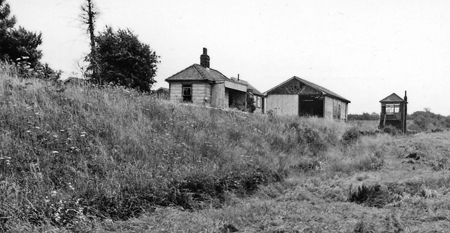 Birdbrook Station (remains). View SE, towards Chappel; Chappel & Wakes Colne - Haverhill (Colne Valley & Halstead Railway) line. Line and station closed completely 1/1/62, about six months before photograph.